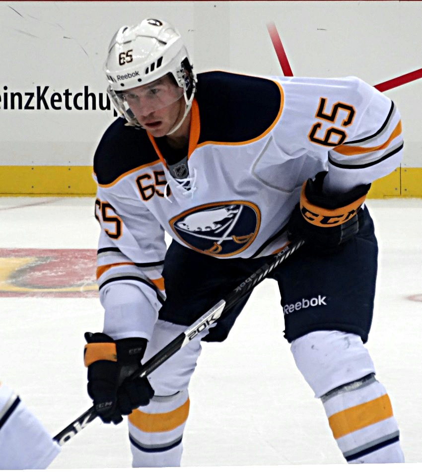 Buffalo Sabres forward Brian Flynn skates against the Pittsburgh Penguins, October 5, 2013, at Consol Energy Center in Pittsburgh, PA.